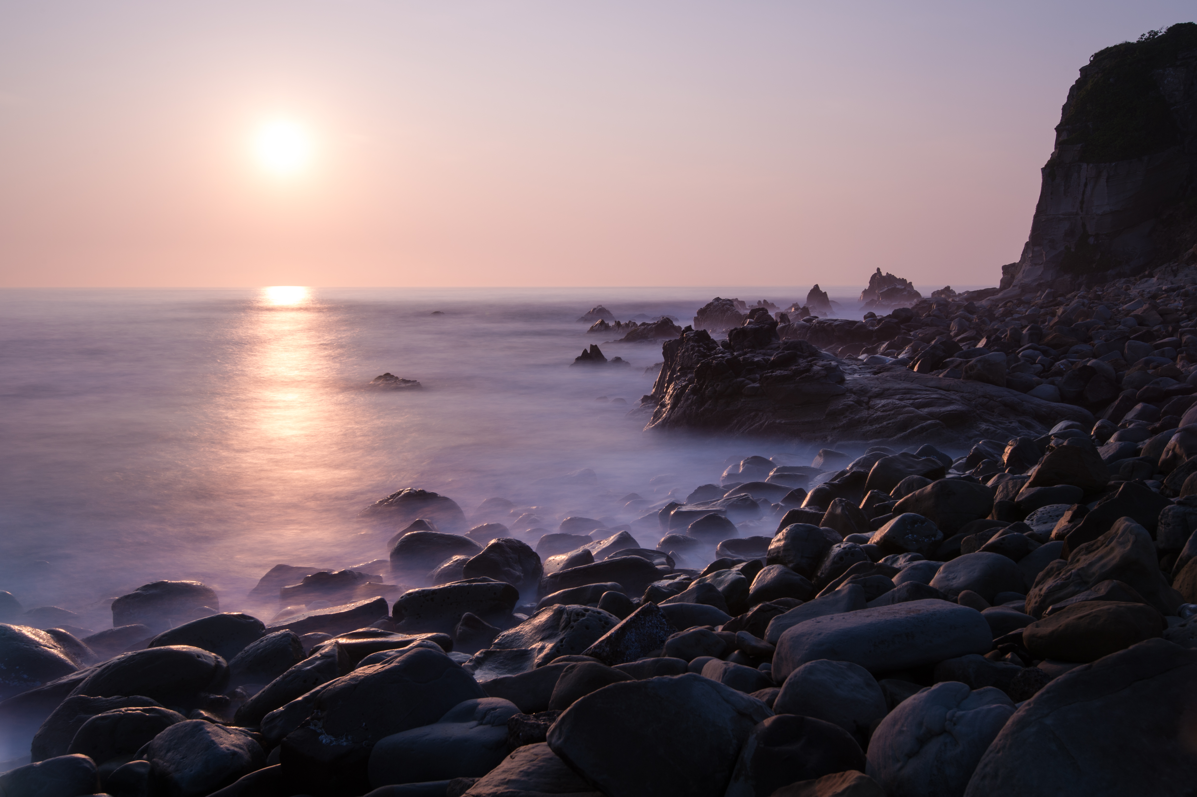 Inubosaki is located eastern end of Chiba and is a great place to enjoy sunrise. 犬吠埼は千葉県の最東端に位置しているので、日の出を楽しむのに適した場所です。 [ Nikon D4, Nikon AF-S NIKKOR 16-35mm f/4G ED VR, 35mm, f/13.0, 30sec, ISO100, Lightroom 5 ]